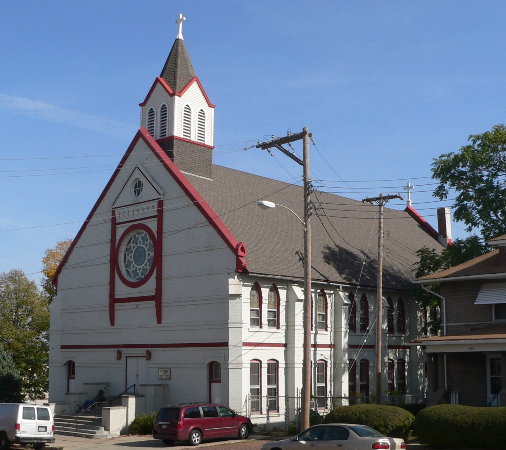 Holy Family Catholic Church, located on the east side of 18th Street between Cuming and Izard Streets in Omaha, Nebraska; seen from the southwest.